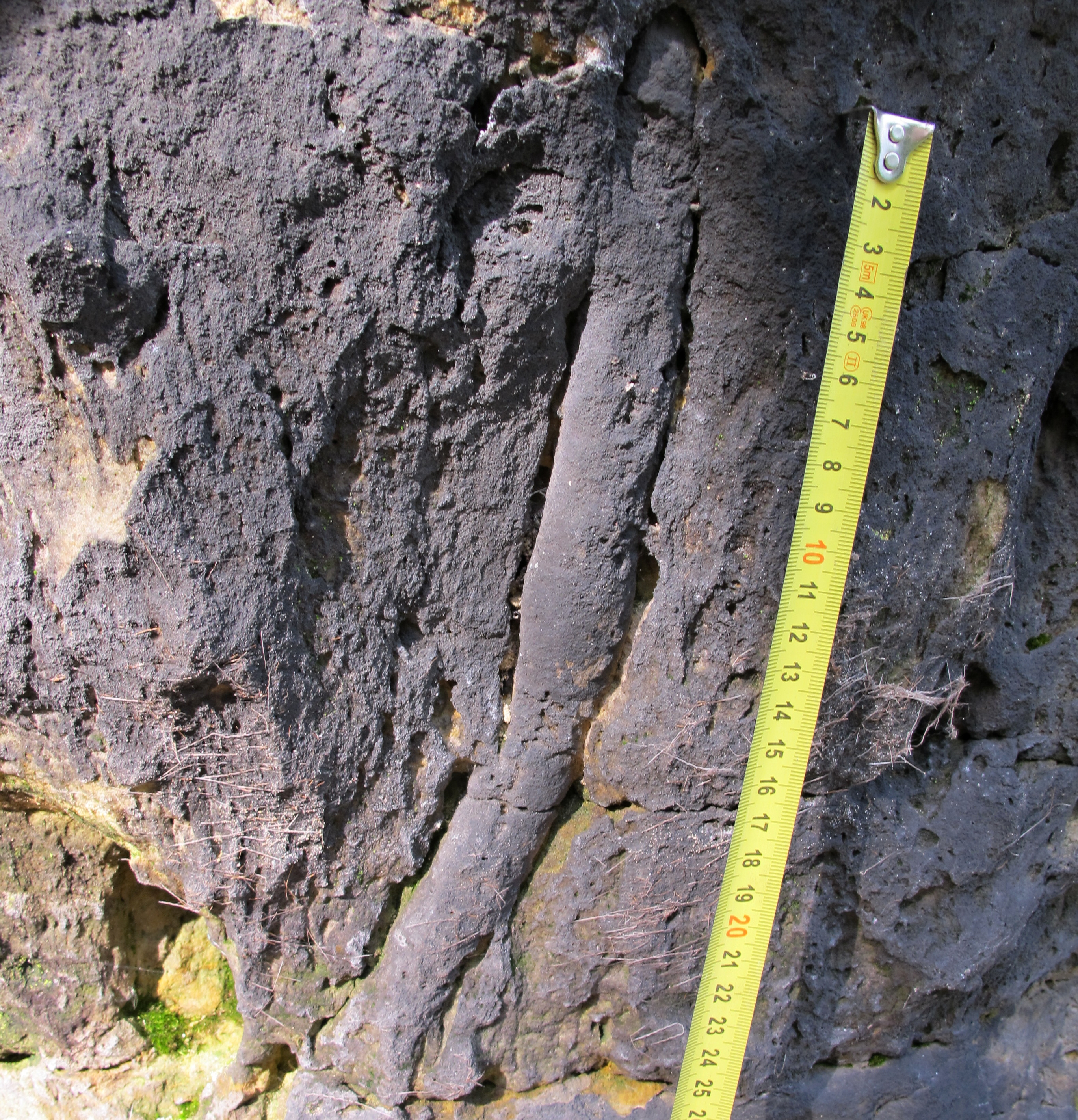 trace fossil Ophiomorpha preserved in sandstones of Late Turonian age near Pravčická brána Arch (Prebischtor), Děčín District, Czech Republic